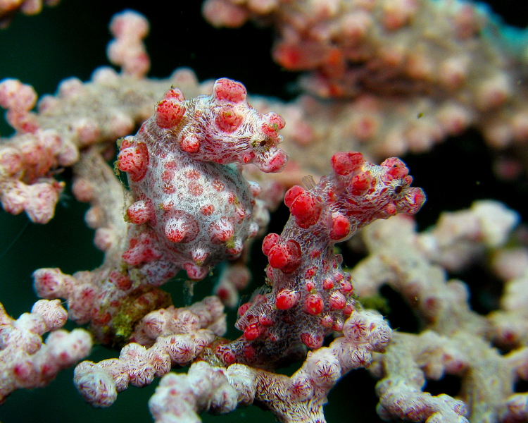 Pygmy Seahorses (Hippocampus bargibanti)